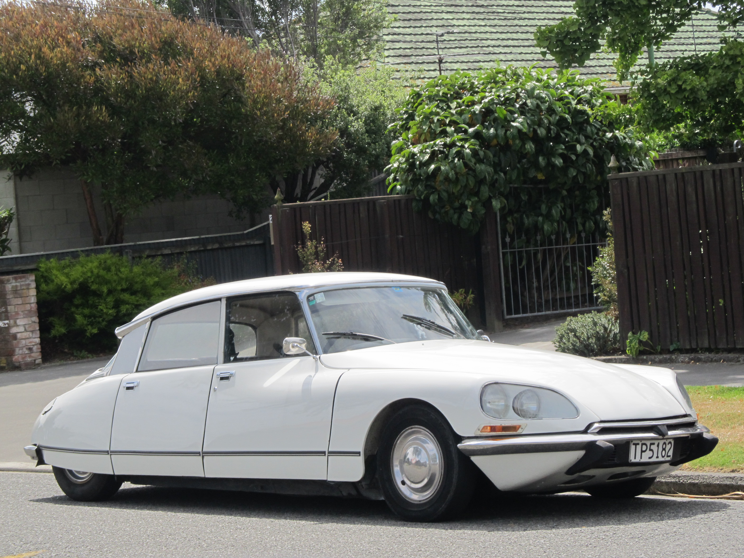 TP5182 These cars are so cool! This was a pretty amazing find on the street, but the owner had an XM and a C6 as well, so there you go... This was a well-maintained example.